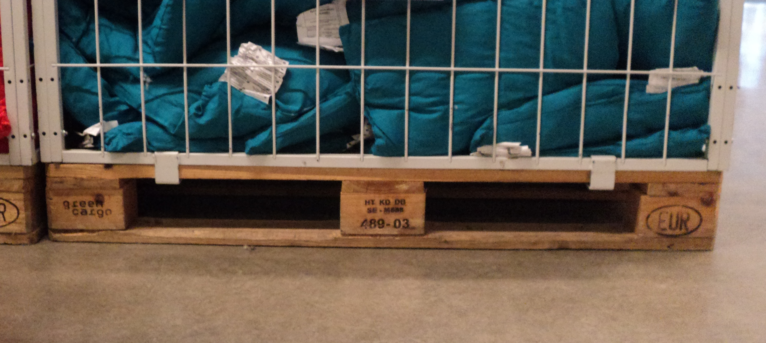 Green Cargo EUR pallet seen at a Canadian Ikea store. Image taken by the uploader and cropped with GIMP.